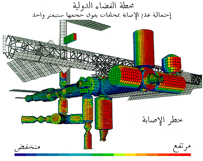 NASA's illustration showing high impact risk areas for the International Space Station